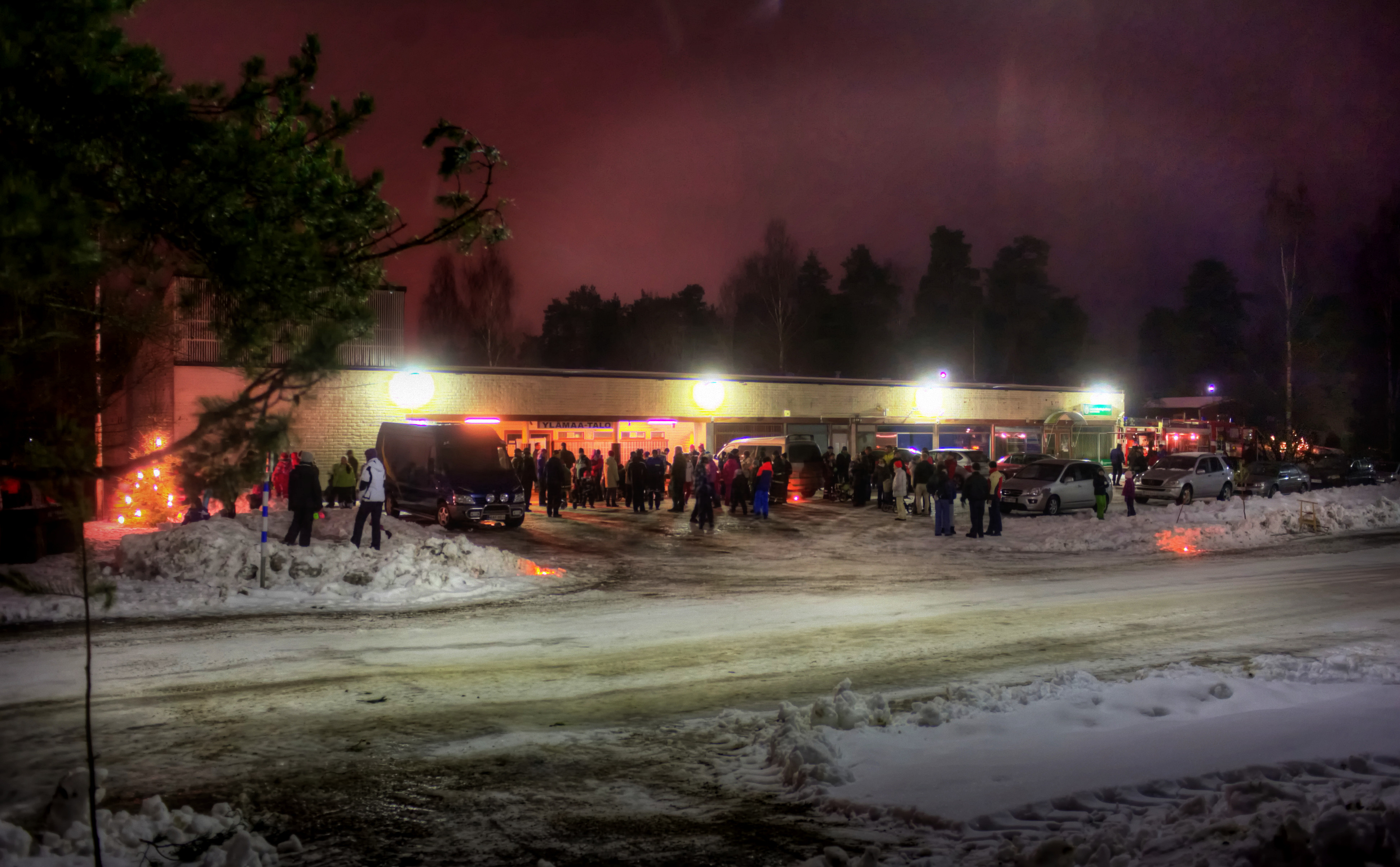 Ylämaa Town Hall 31.12.2014